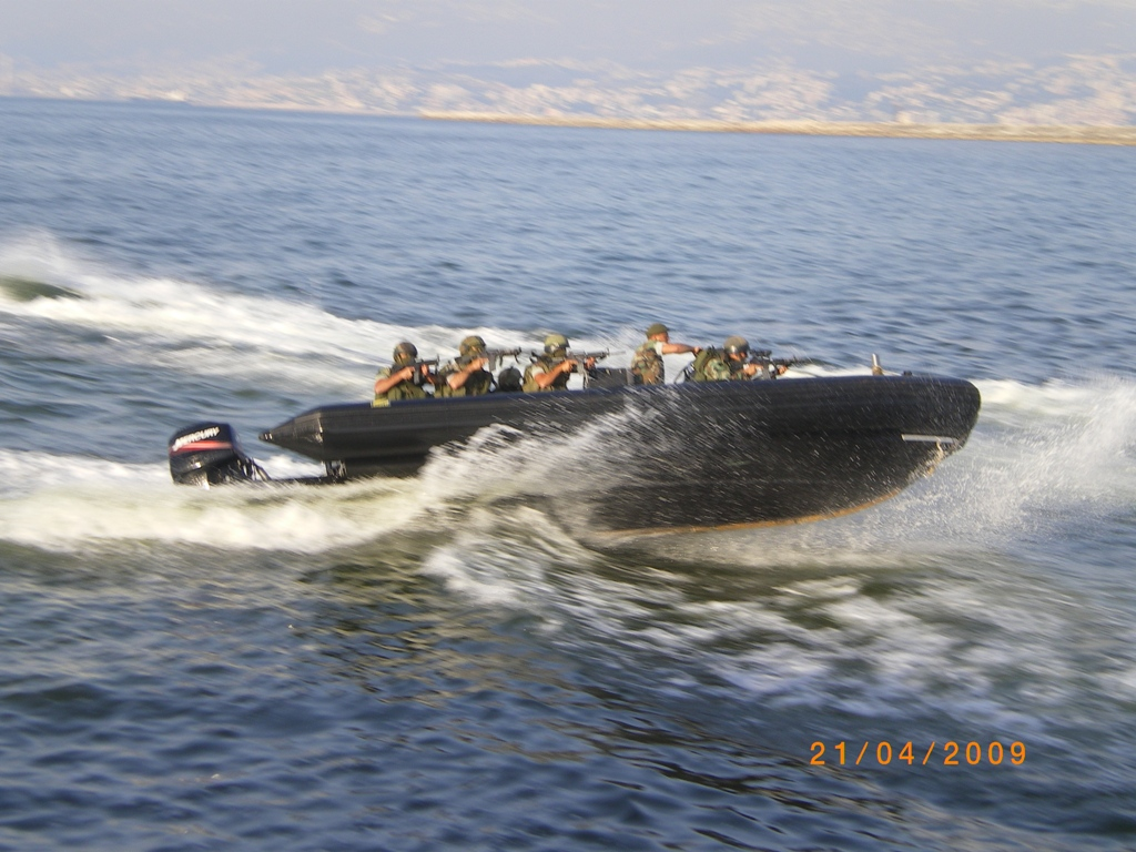 Lebanese Navy SEALs on board of a Zodiac RHIB performing a drill during Security Middle East Show in BIEL, Beirut - Lebanon.